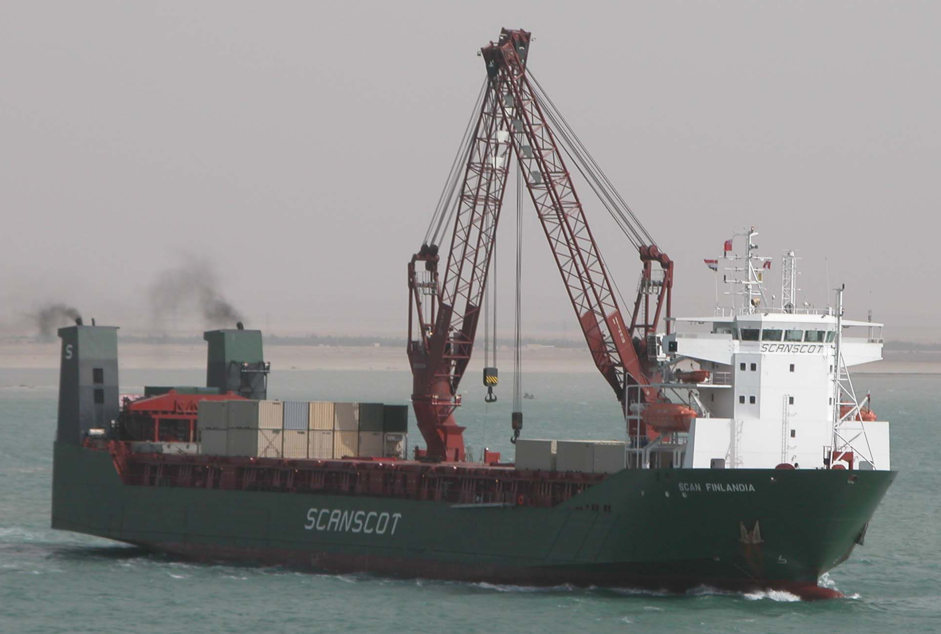 M/V Scan Finlandia in the Bitter Lake January 2004